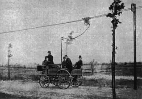 The "Elektromote", the world's first trolleybus, in Berlin, Germany, 1882